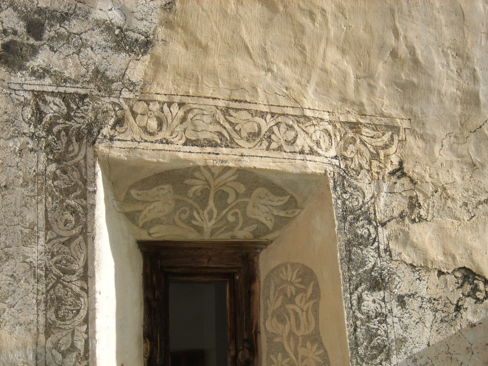 Scraffito in Guarda, Switzerland